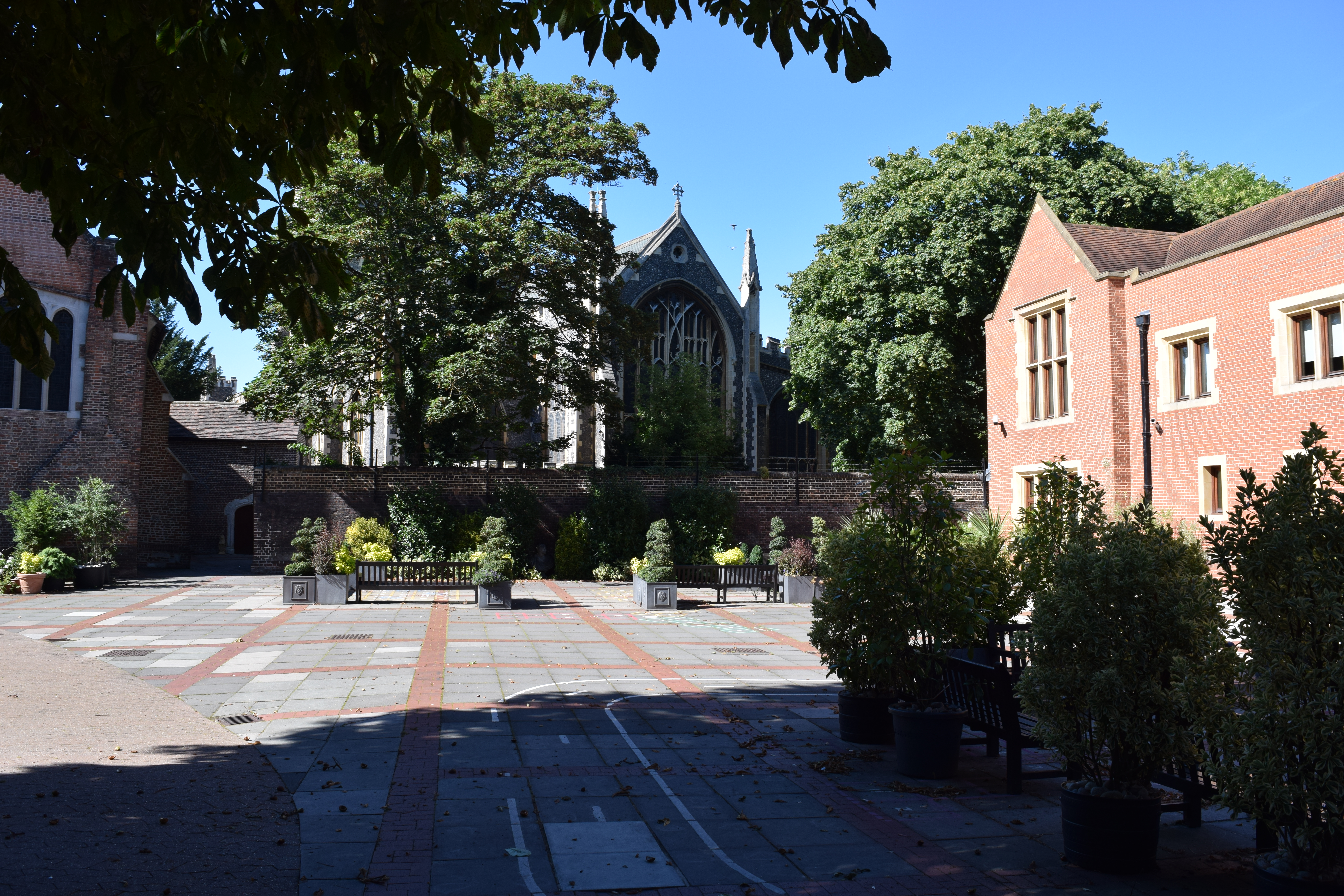 Old Palace School Wikidata has entry Q7084691 with data related to this item.